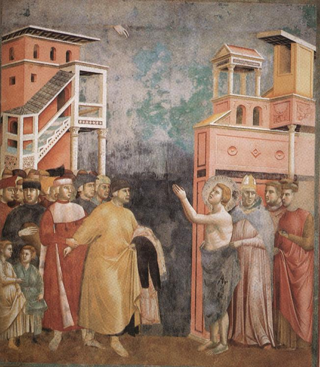 Legend of St Francis